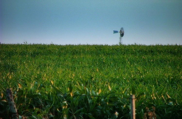 Plantations in Bella Unión, northern Uruguay.